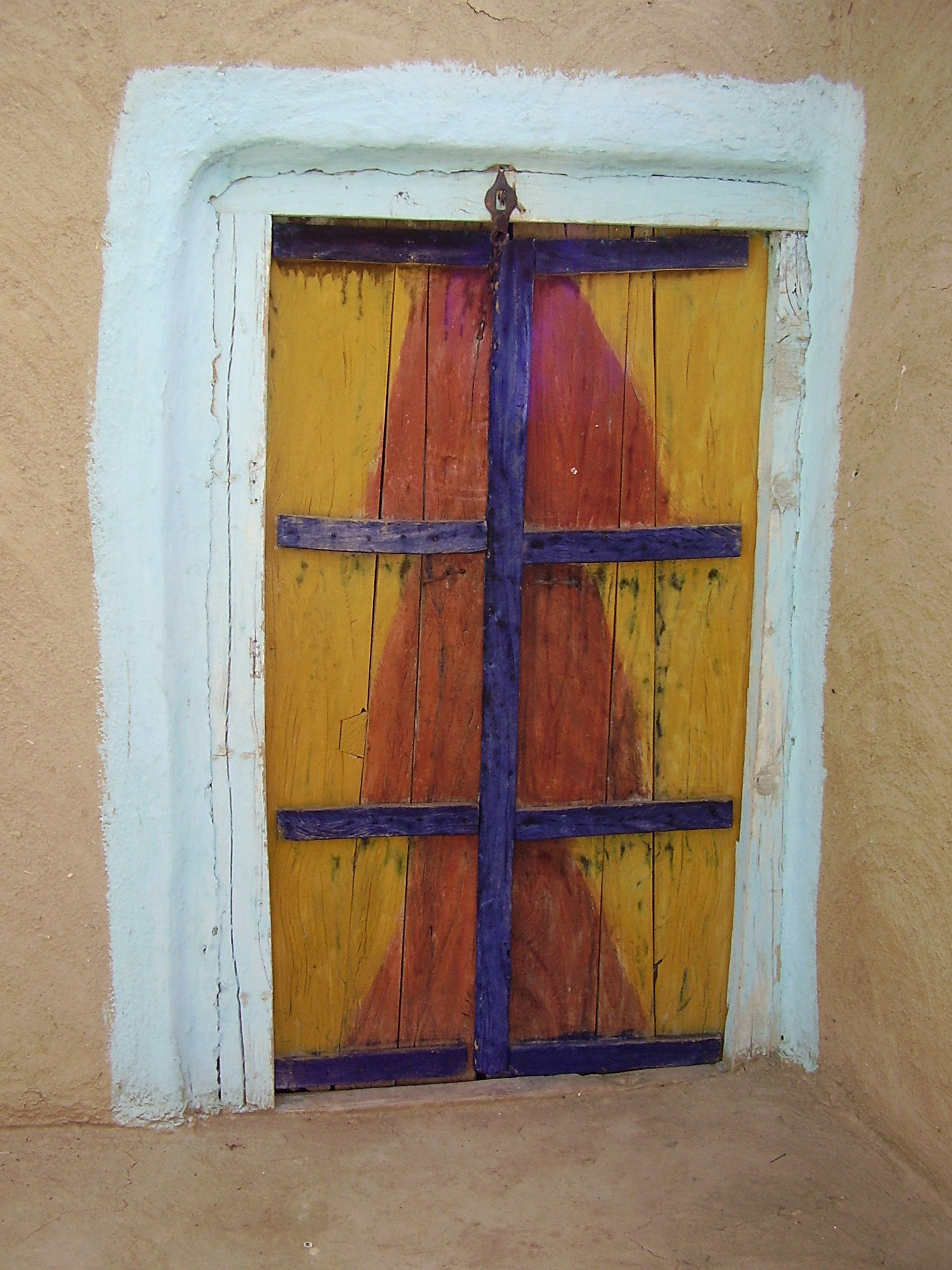 It is a wooden door used in rural Punjab.